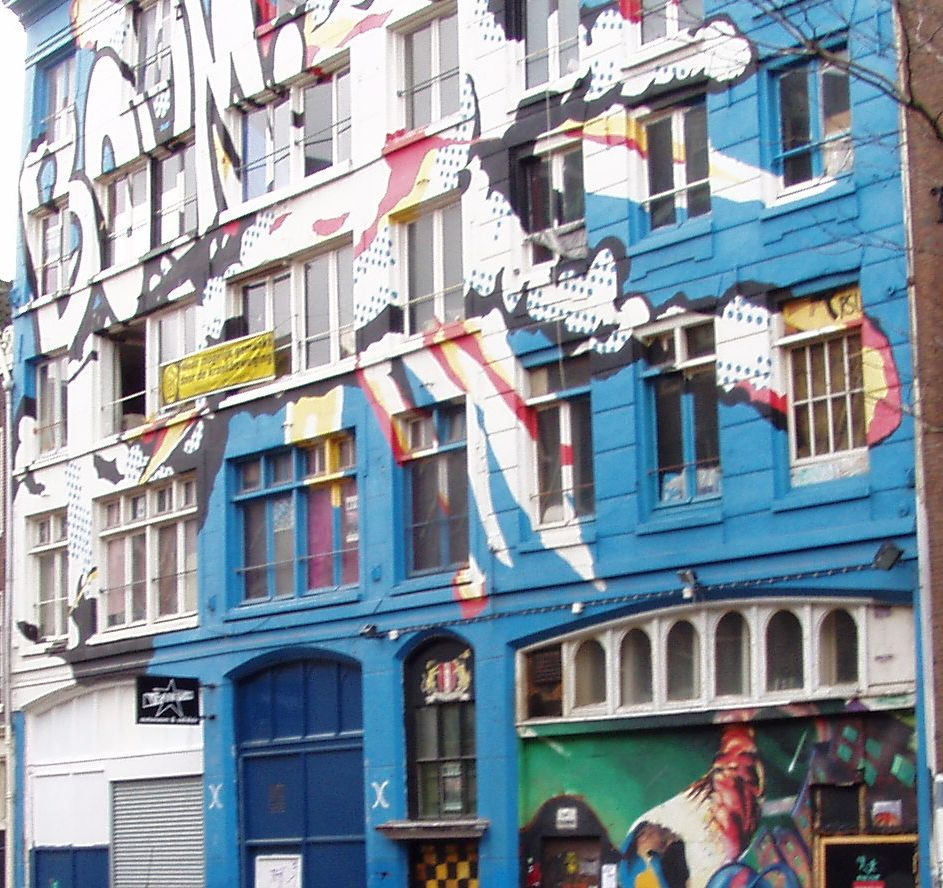 Squatters pand Vrankrijk in Amsterdam